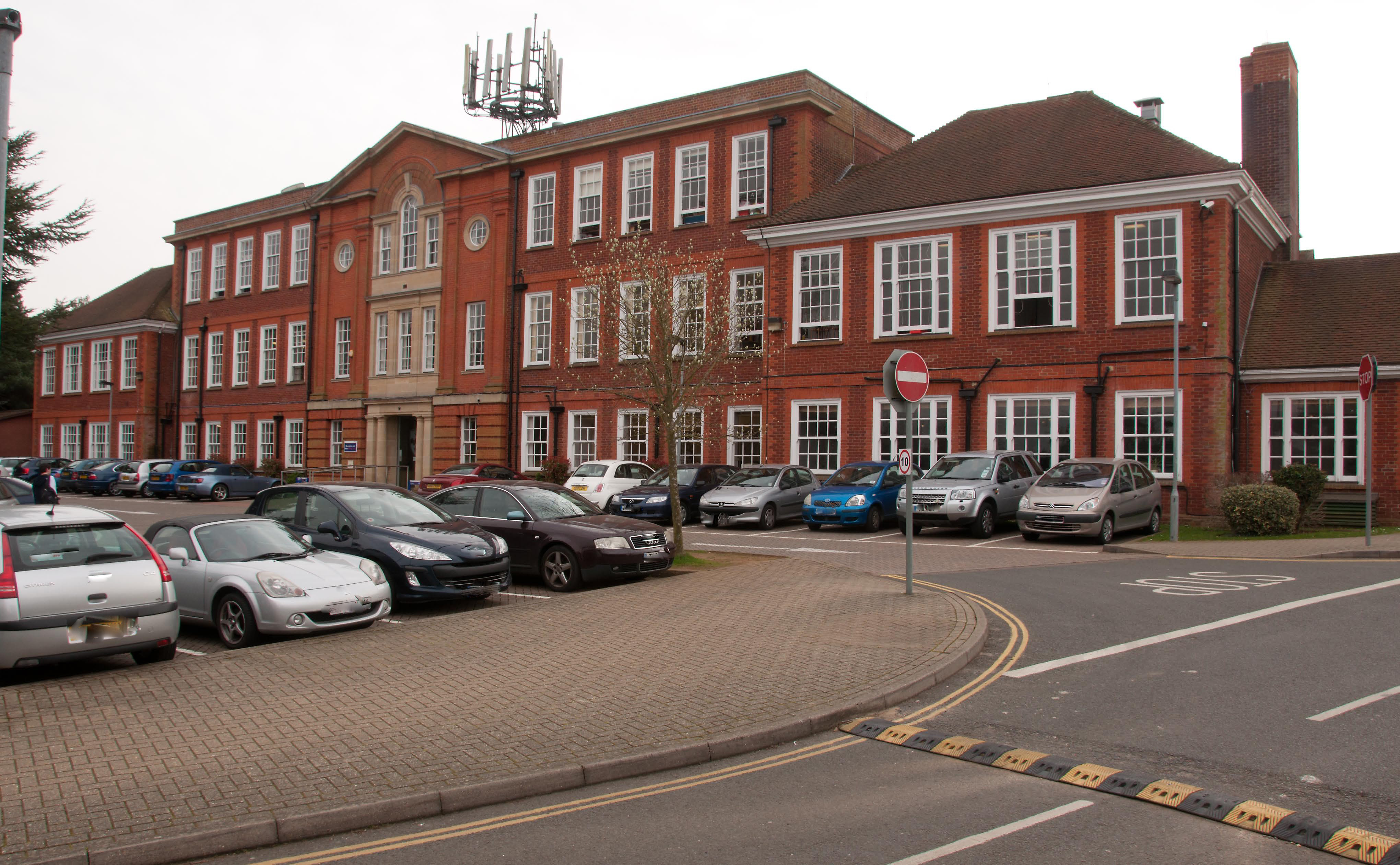 The Old Buildings, north front.